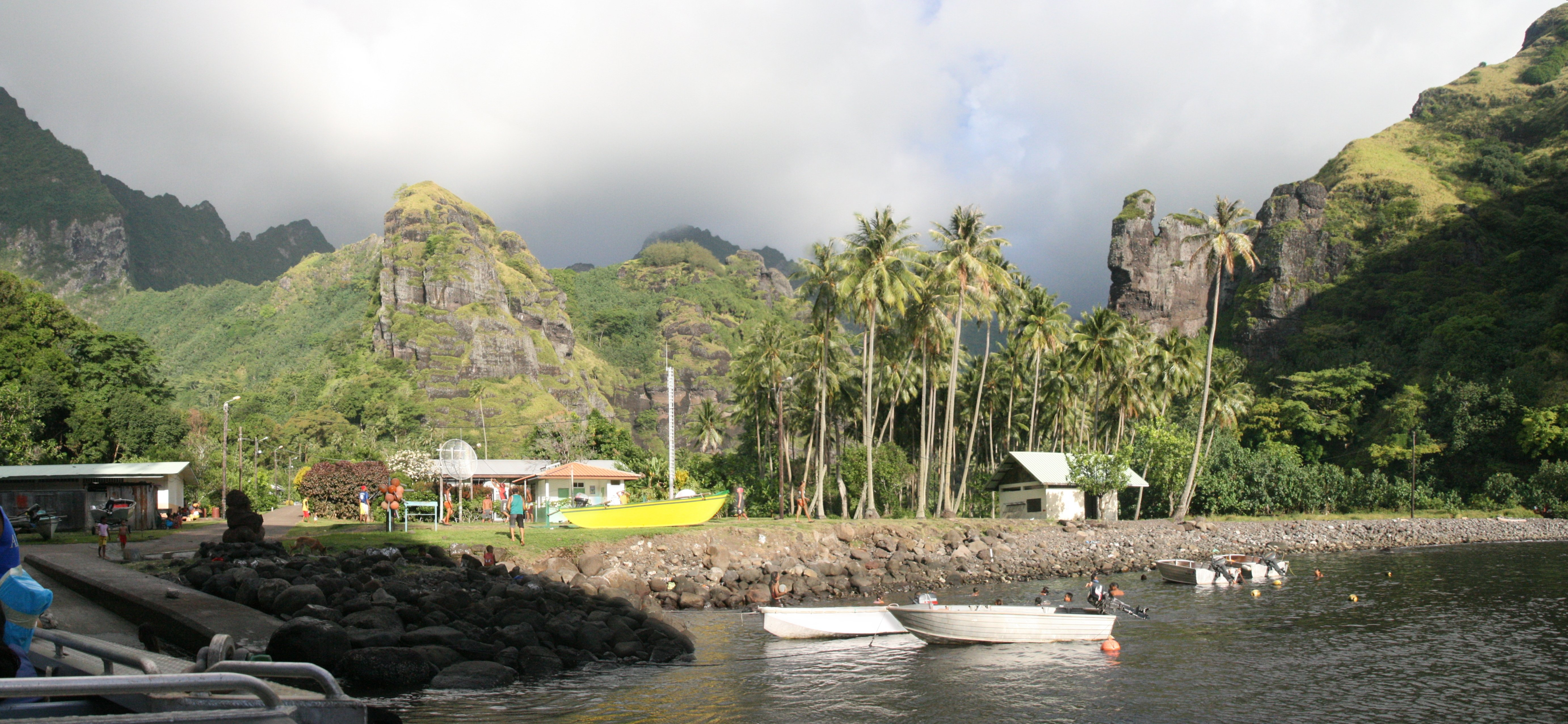 Village and harbour of Hana Vave, island of Fatu Hiva, Marquesas islands, French Polynesia. We can see clearly on the right cliff a rock which looks like a Moai's head